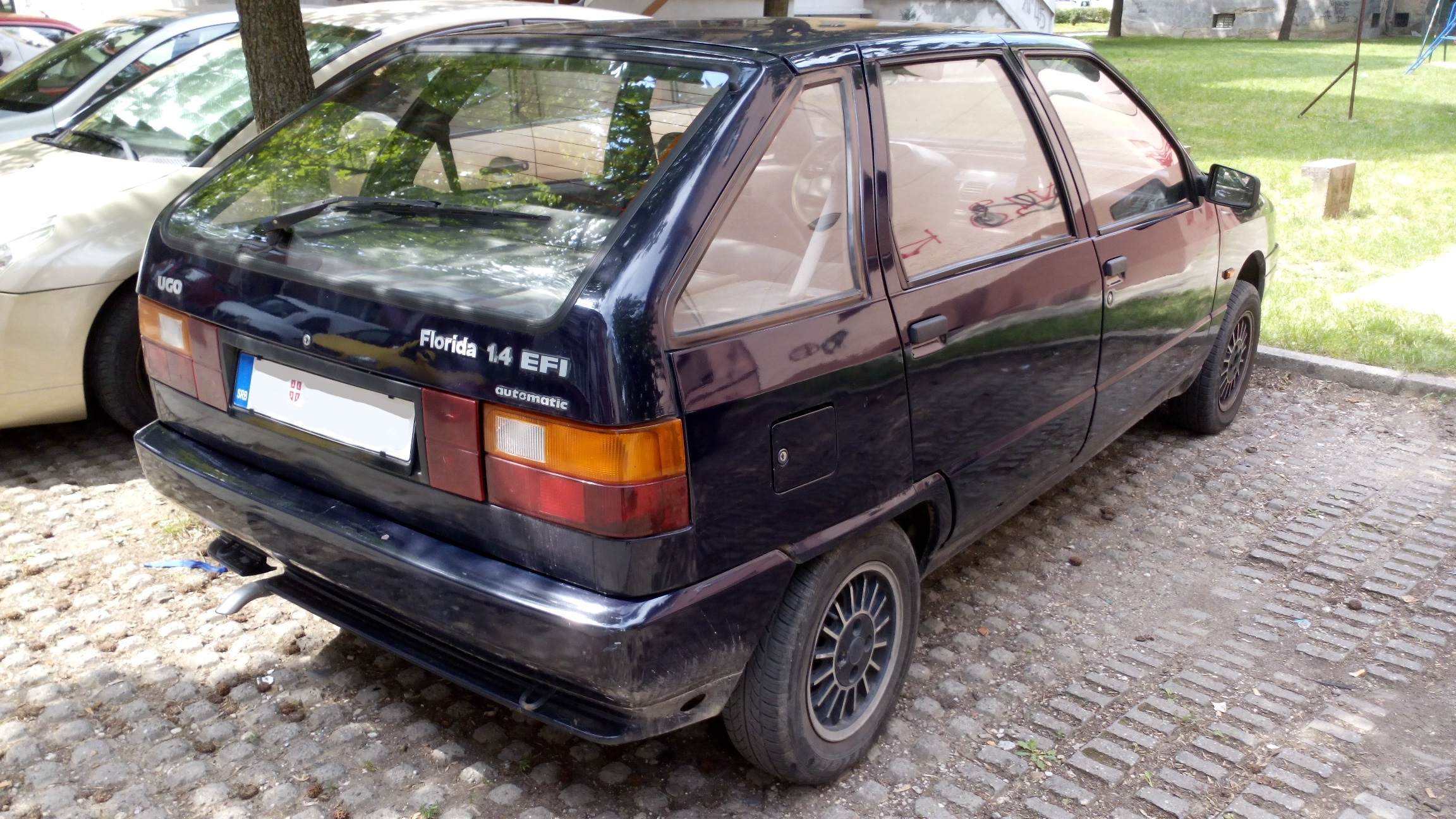 Yugo Florida 1.4 EFI Automatic. Version of Florida with automatic gearbox. Also has front power windows.